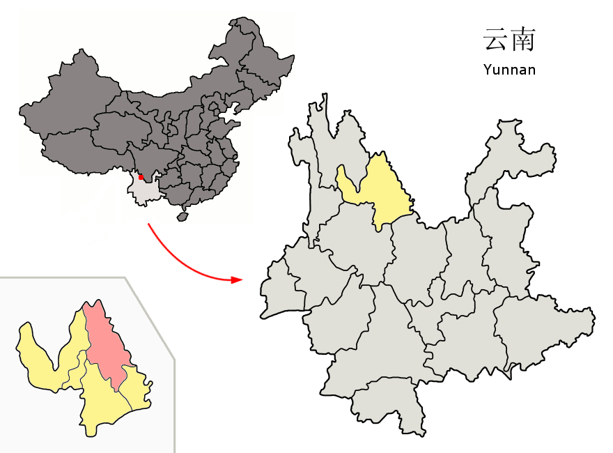 Location of Ninglang County (pink) and Lijiang prefecture (yellow) within Yunnan province of China Map drawn in september 2007 using various sources, mainly : Yunnan province administrative regions GIS data: 1:1M, County level, 1990 Yunnan Counties map from